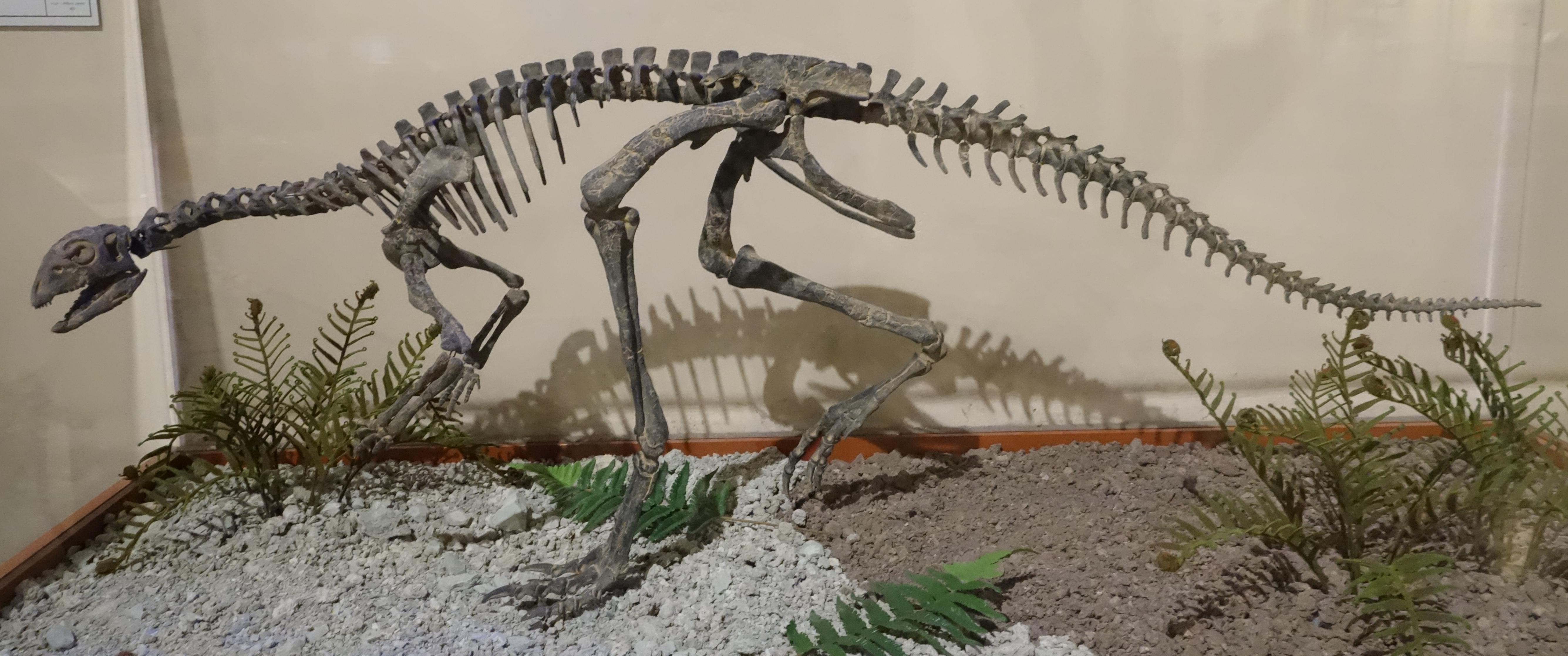 Skeletal cast of Othnielosaurus (labeled as Othnielia), on display at the Museum of Western Colorado’s Dinosaur Journey Museum in Fruita, Colorado